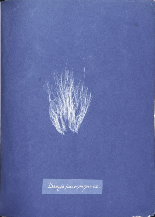 Bangia fusco-purpurea. Cyanotype photogram.